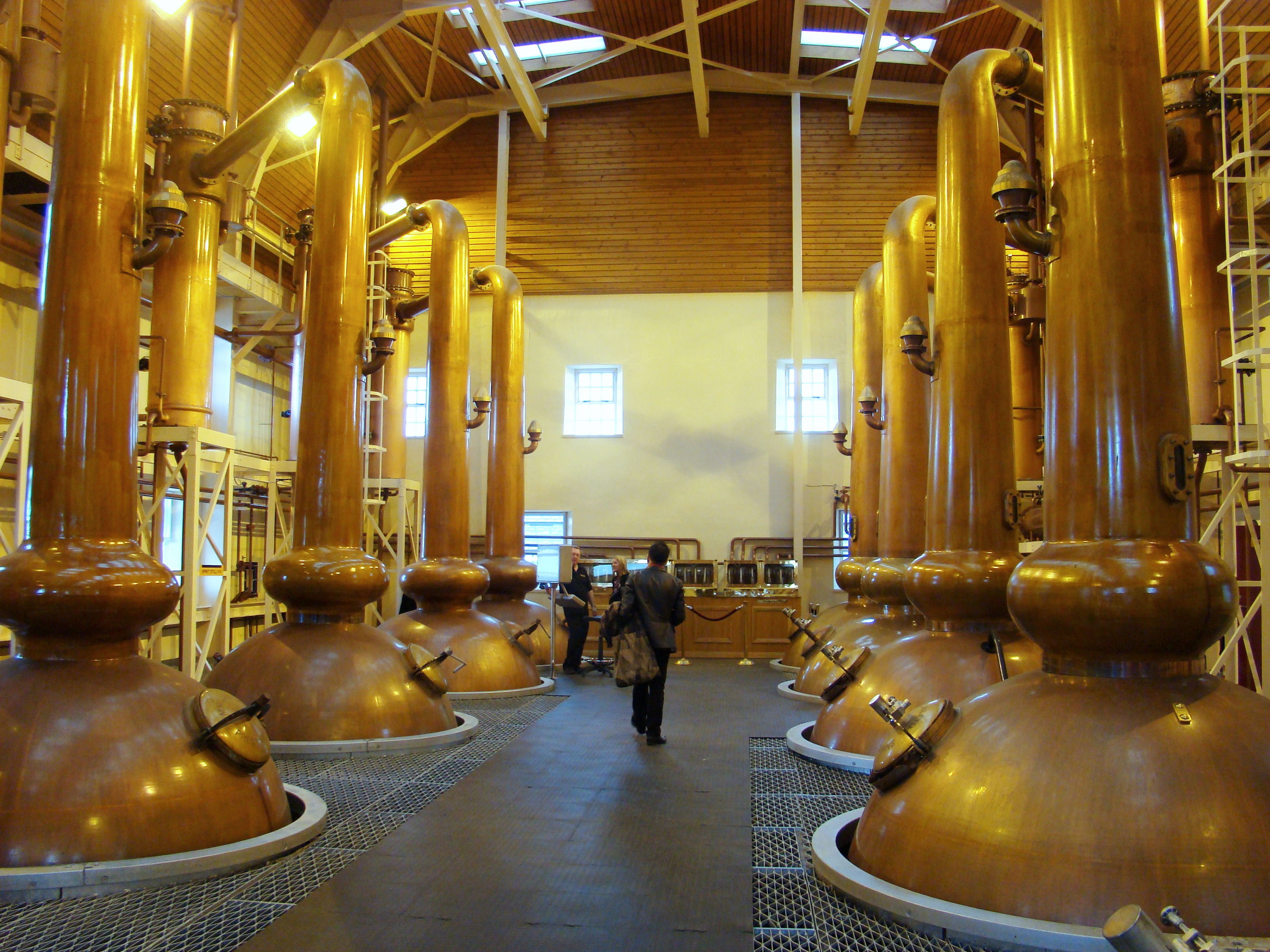 The stills at Glenmorangie Distillery